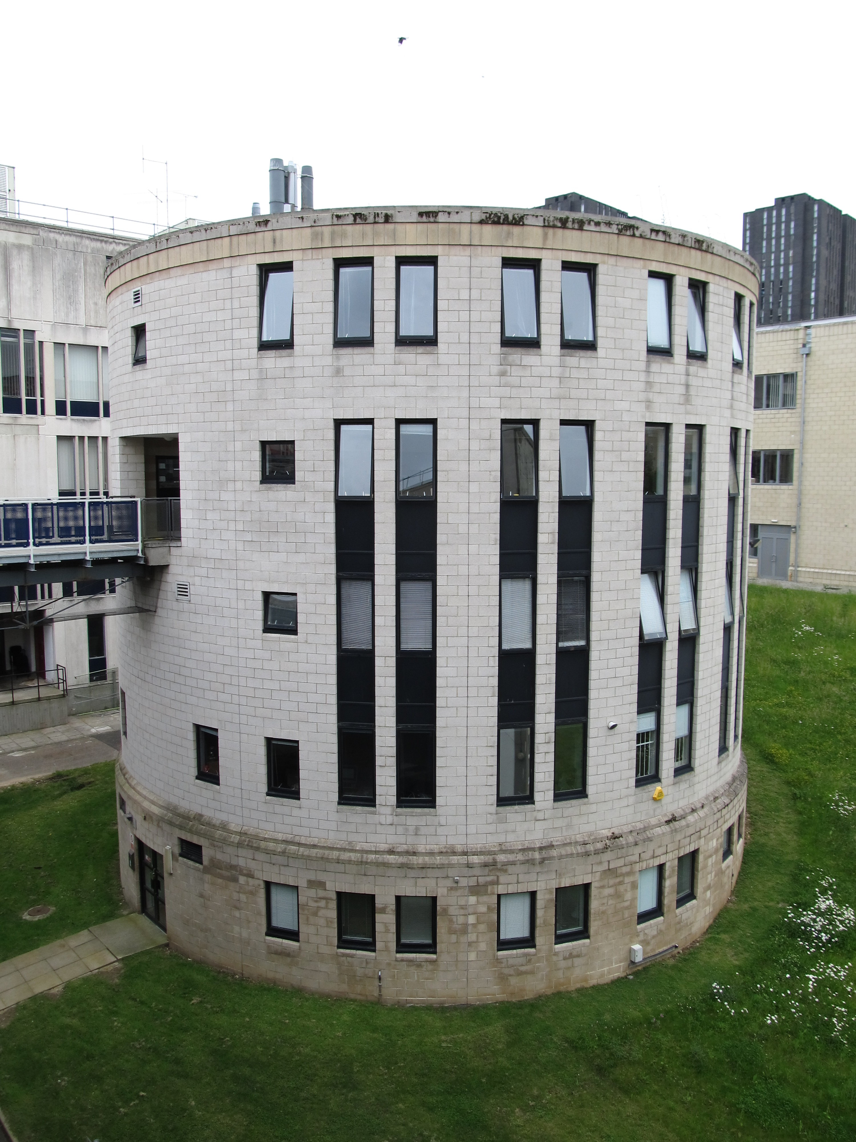 The Rab Butler Building, University of Essex. Named after the first Chancellor of the university, it was officially opened on 2 November 1991.